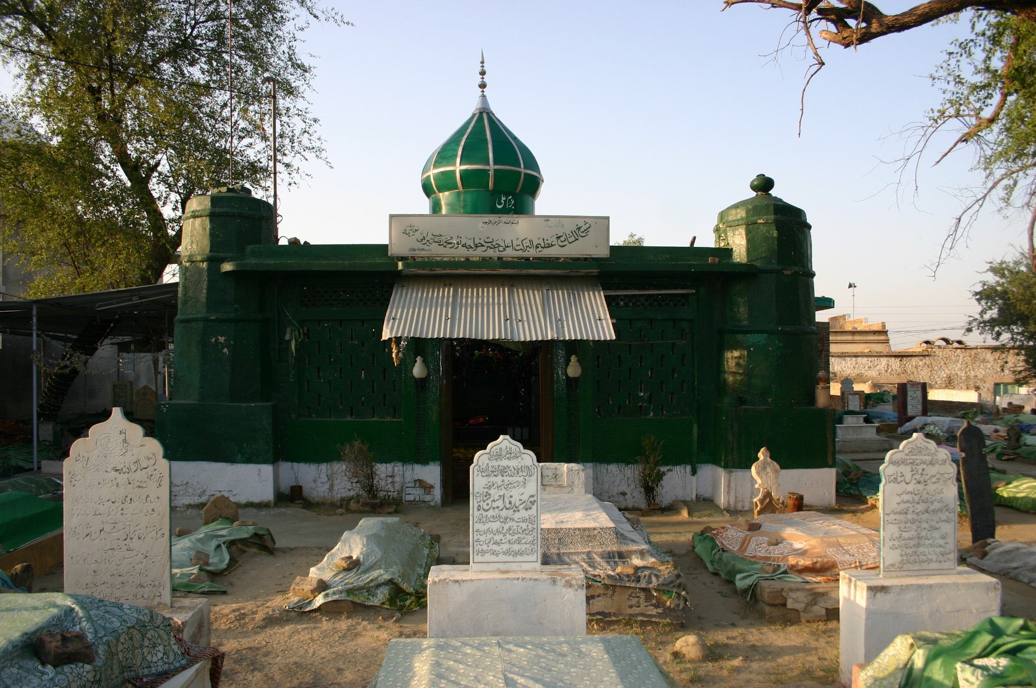 Shrine of the founder of Chura Sharif, Hazrat Khawaja Syed Noor Muhammad Churahi, known as Baba G Rehmat Ullah, in Chura Sharif, Punjab, Pakistan.